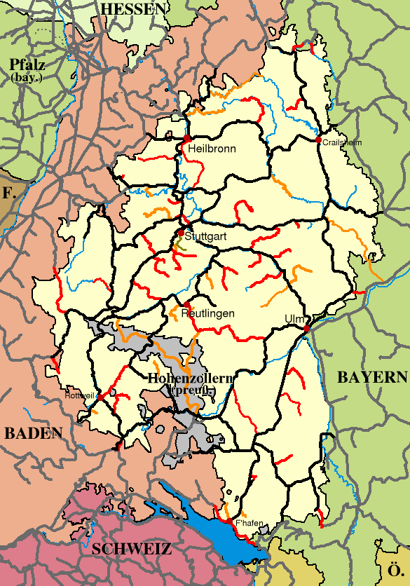 Railroad network in Württemberg as of 1940. Black/beige: State/private railroads until 1890; red/orange: state/private railways built after 1890; gray: railroads outside of Württemberg; dotted: railroads discontinued before 1940